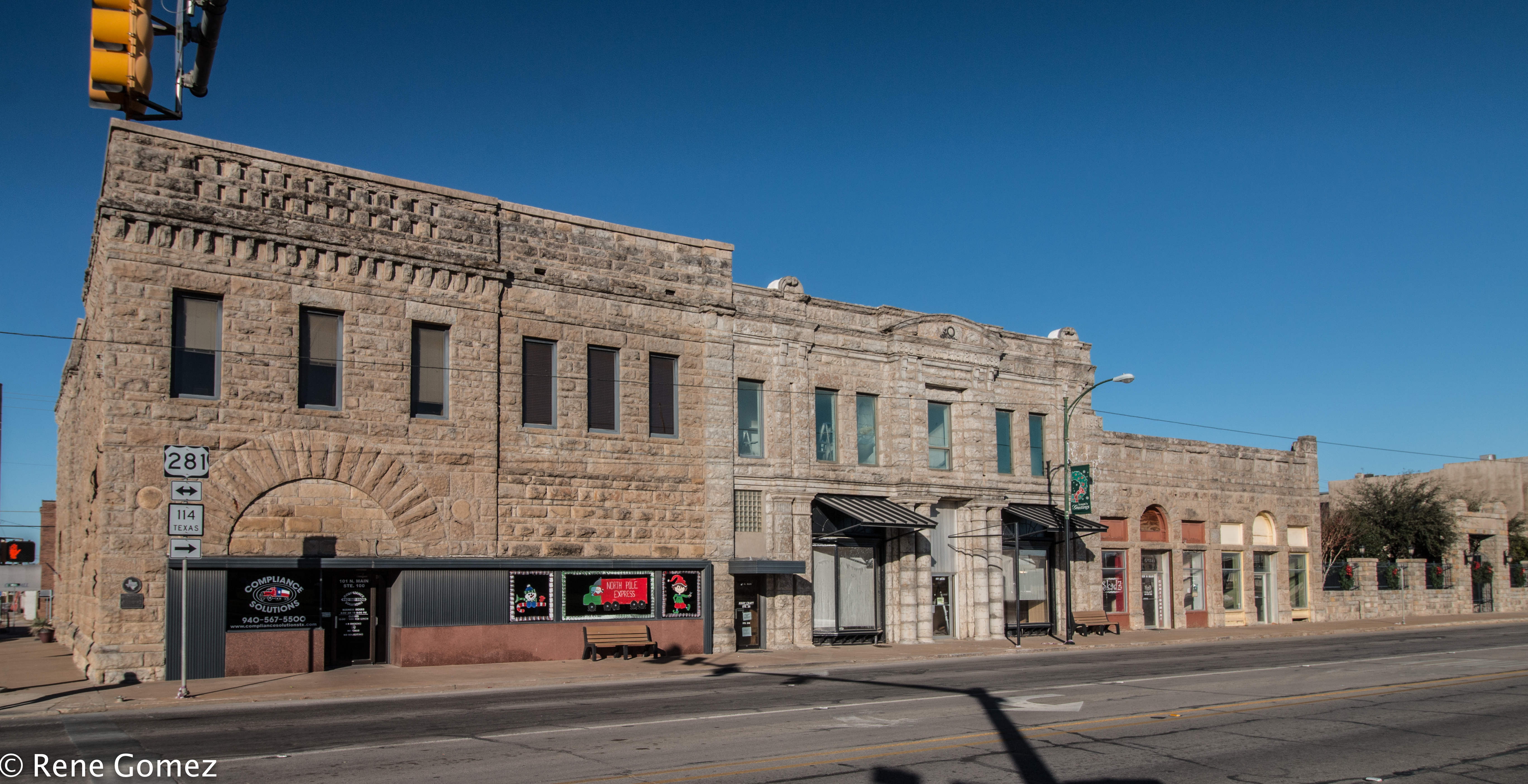 Historic buildings in Jacksboro, Texas